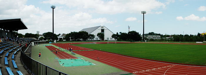 Narita Nakadai Sports Park